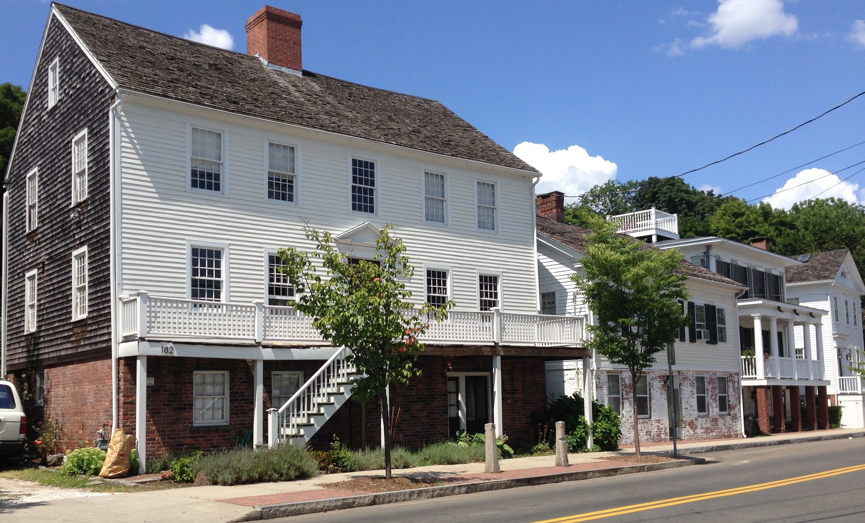 Historic homes along Front Street in New Haven's Fair Haven neighborhood, across from the Quinnipiac River.